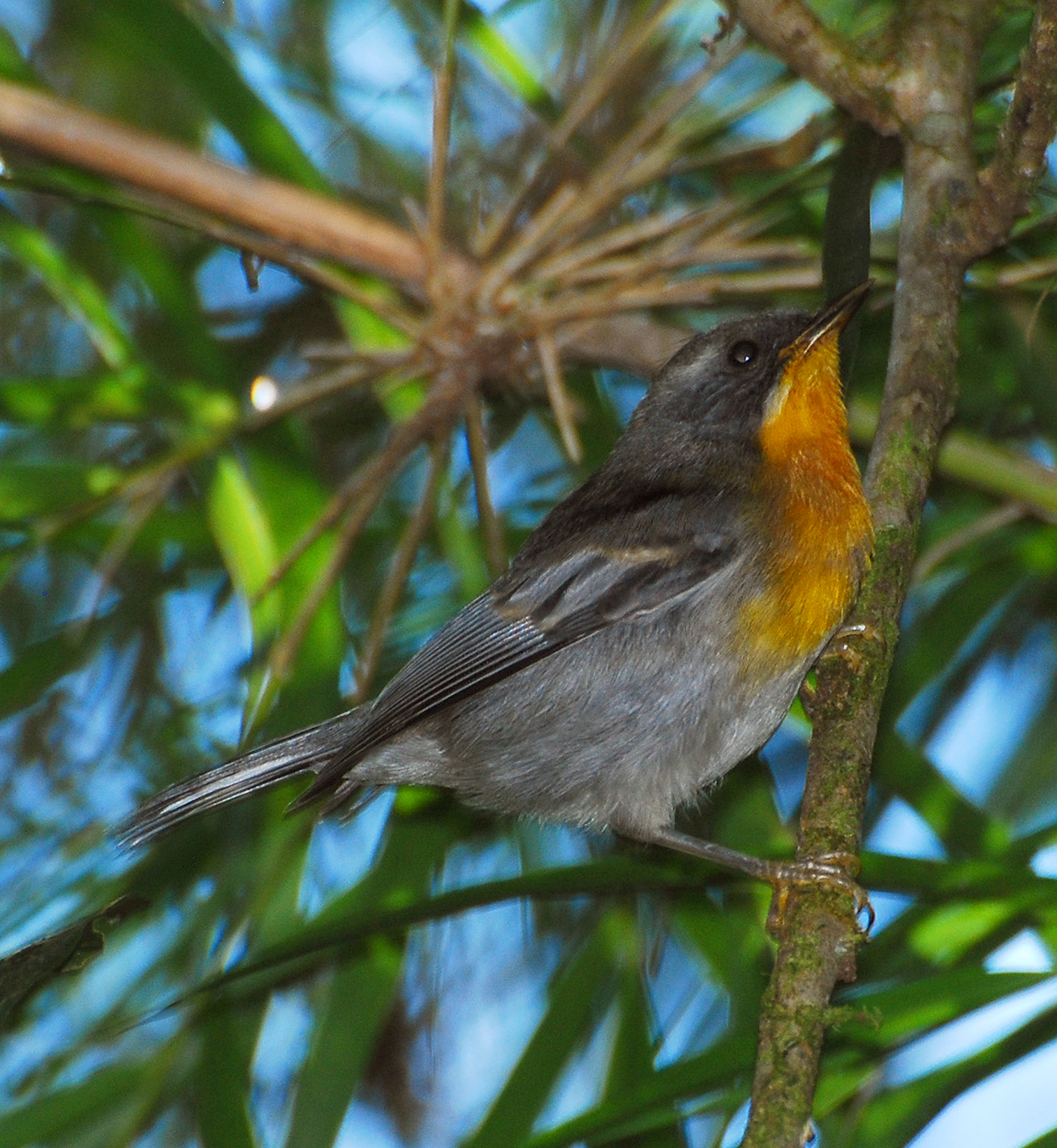 Flame-throated Warbler Oreothlypis gutturalis at Savegre Lodge, Costa Rica.